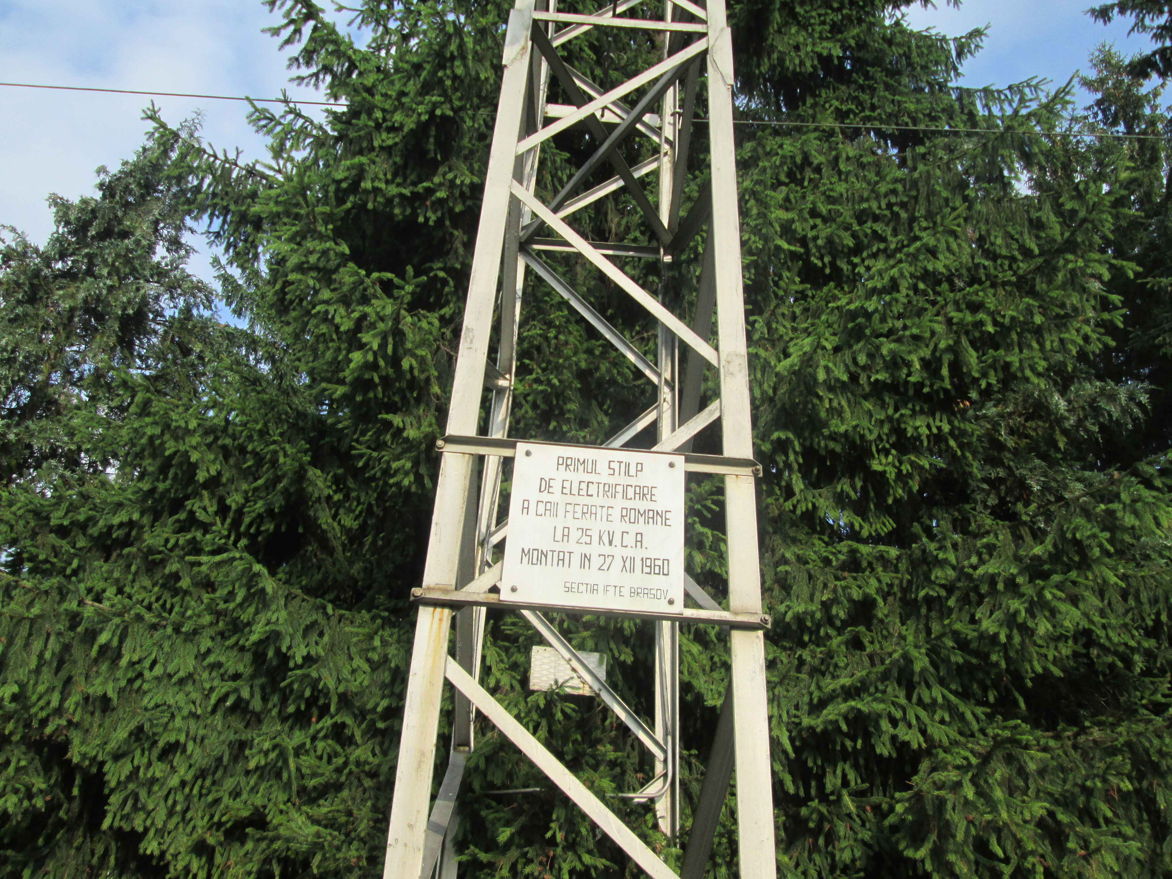 The first Romanian gantry pole, mounted on the 27th of December 1960 at Predeal railway station